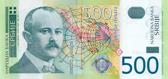 500 Serbian dinars (RSD) National Bank of Serbia (2006) issue.